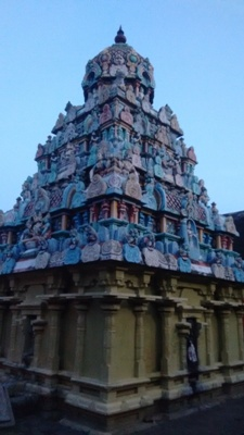 Ambarmahalam mahalesvarar temple திருமாகாளம் மாகாளநாதர் கோயில்